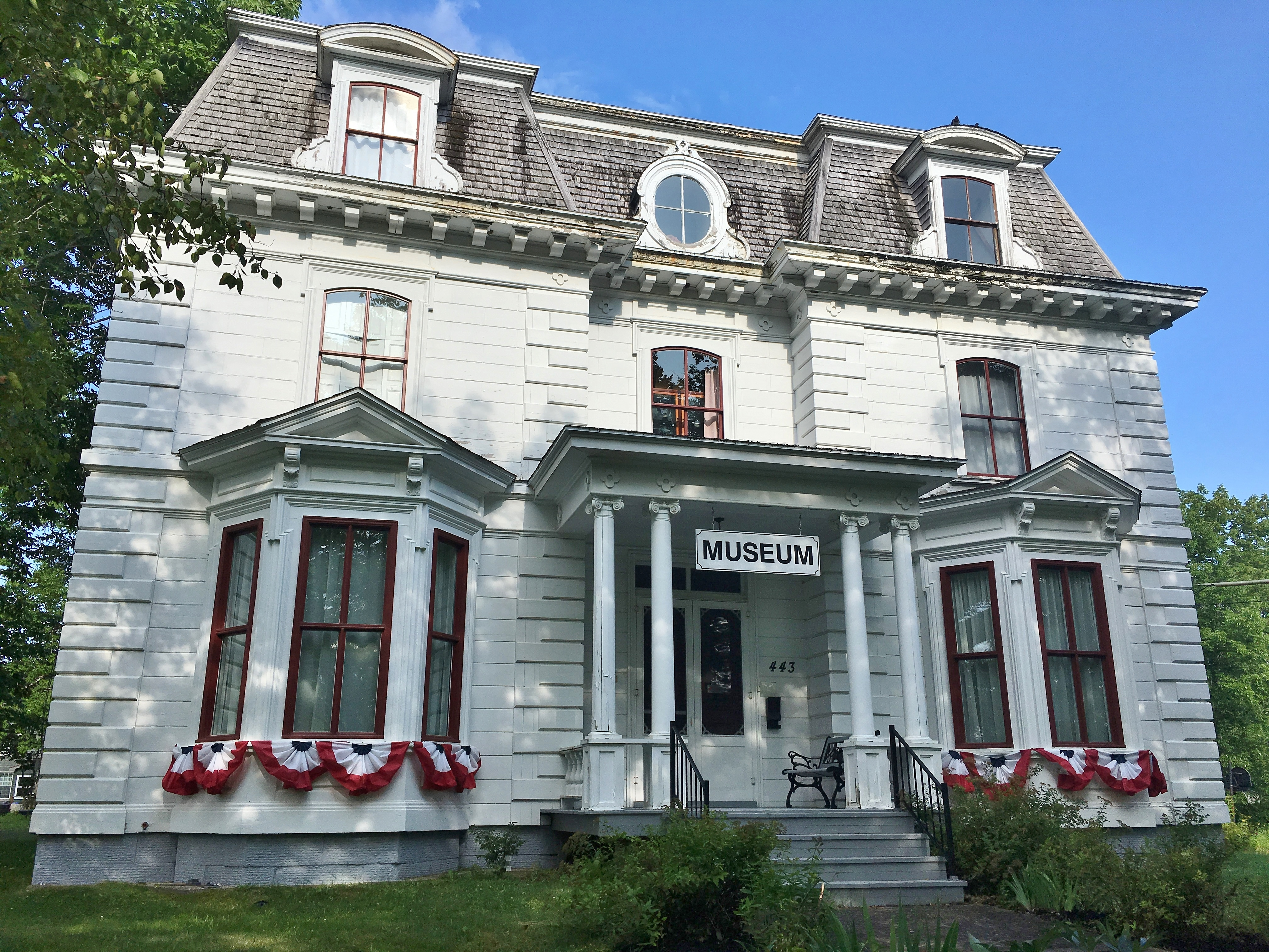 Photograph of a historic house and museum in Saint Stephen, New Brunswick, Canada (August 2019). The James Simpson Murchie House, built in 1864, is now the Charlotte County Museum. (See Canada's Historic Places website